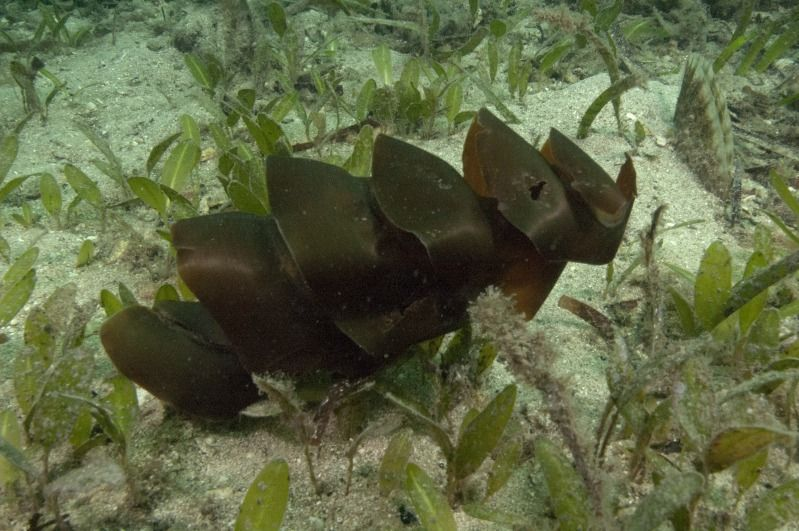 The egg case of a Portjackson Shark, Heterodontus portusjacksoni.